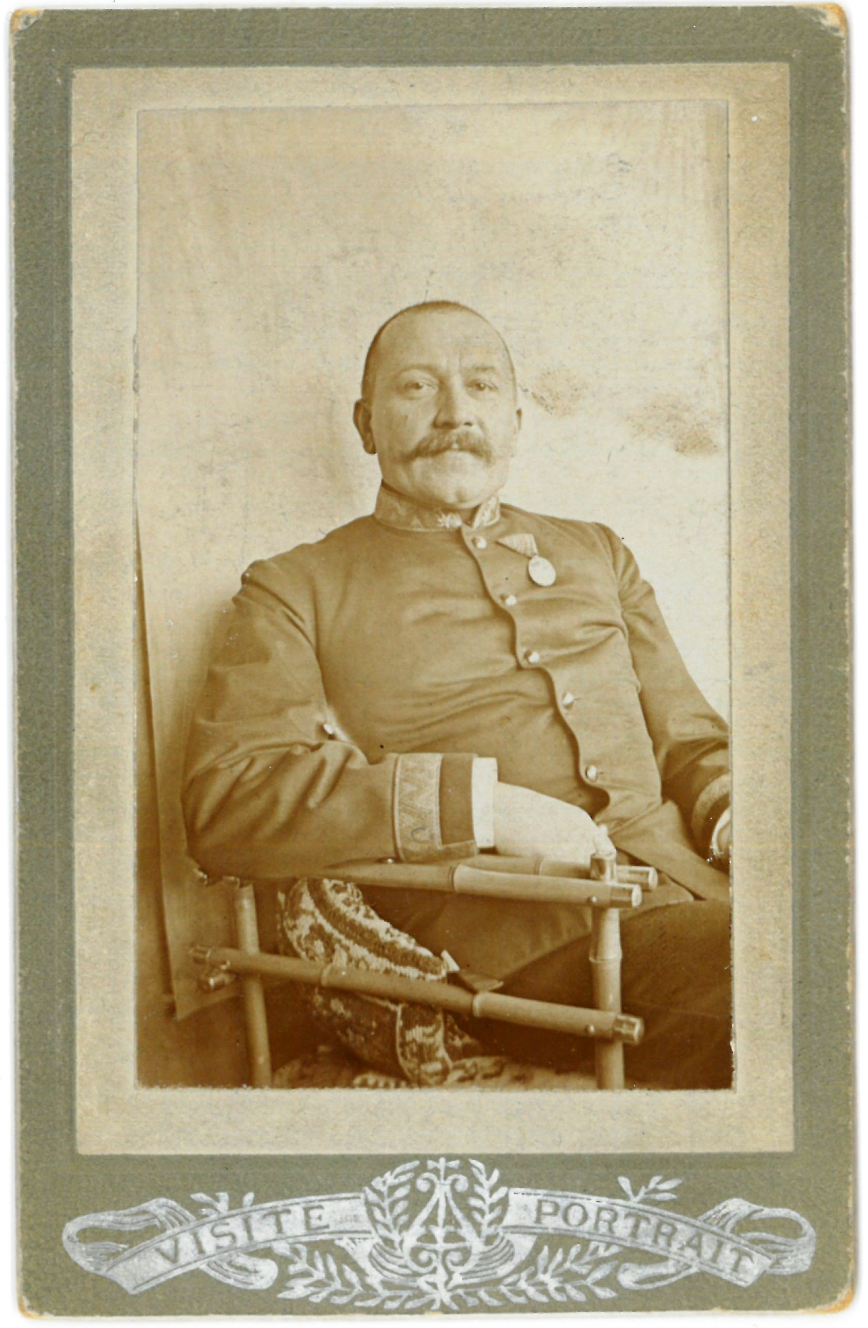 Visiting card of Franciszek Niżałowski (from 1906)